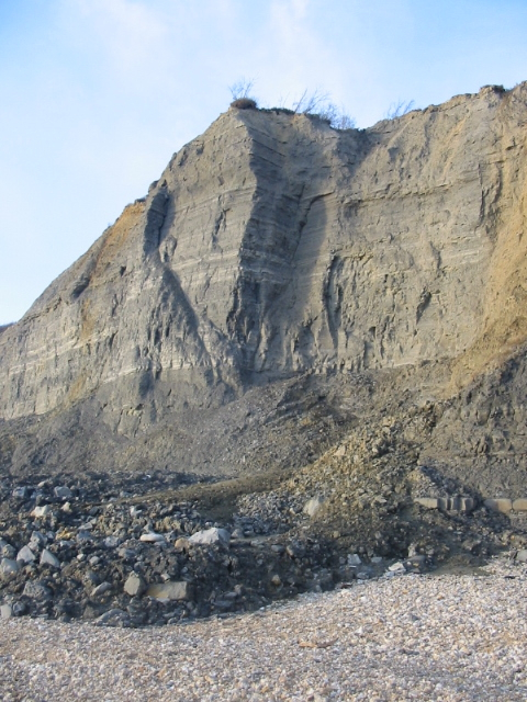 cliff and erosion east of Charmouth.